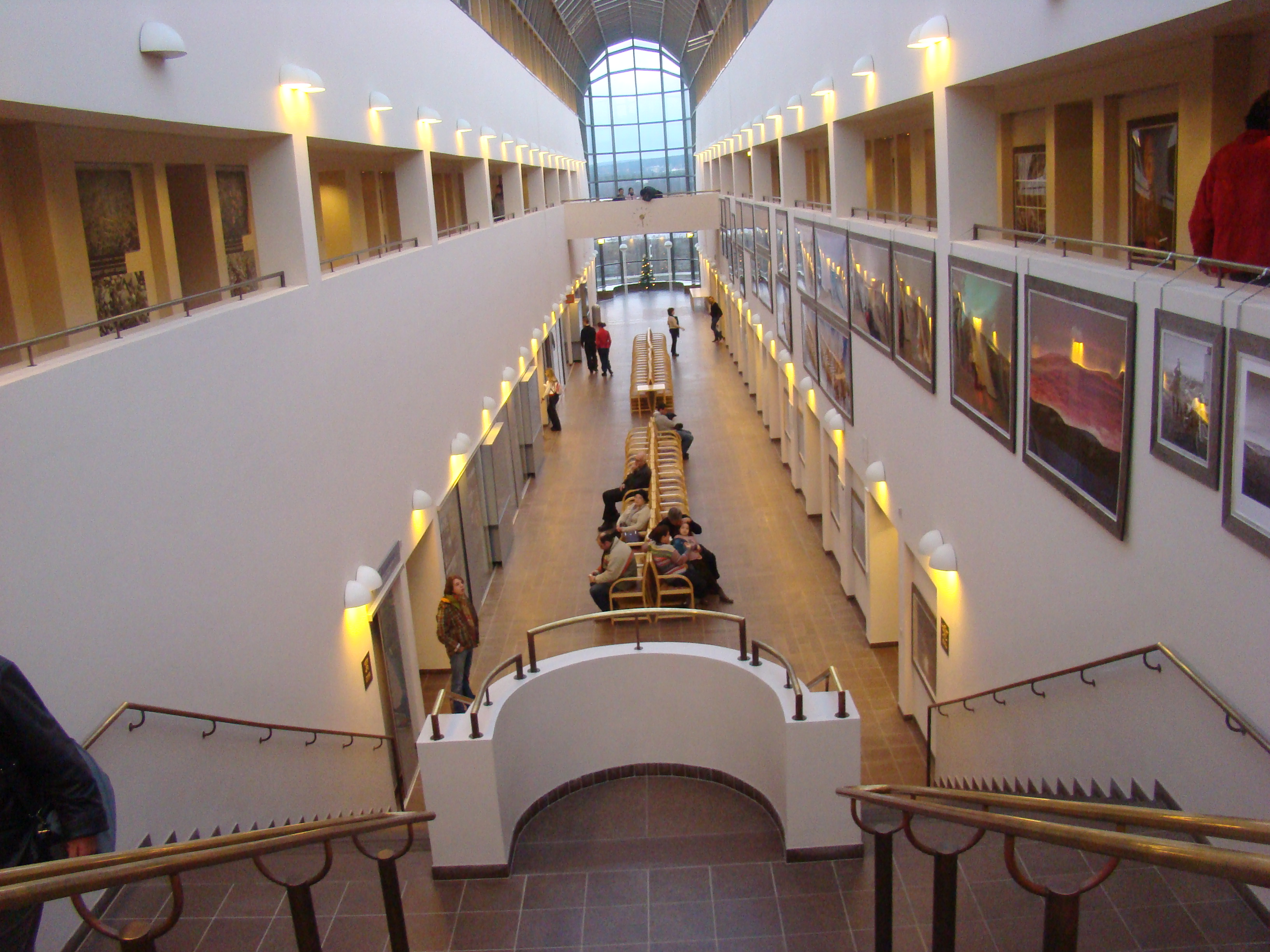 Arktikum museum seen from within.